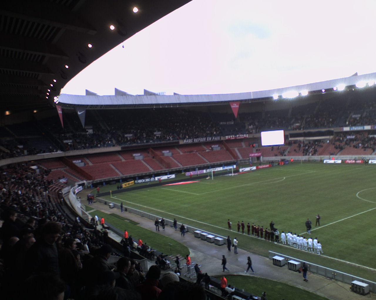 The lower part of Boulogne stand closed due the events of the 23rd of november 2006 near the Parc des Princes.